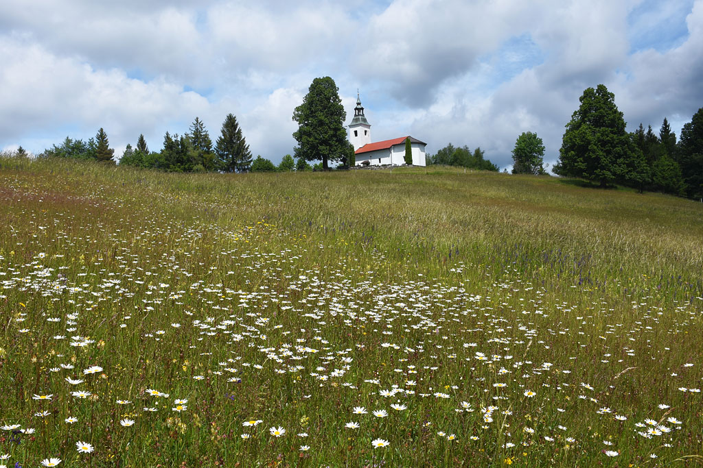 The church is situated on a panoramic hill above the village.